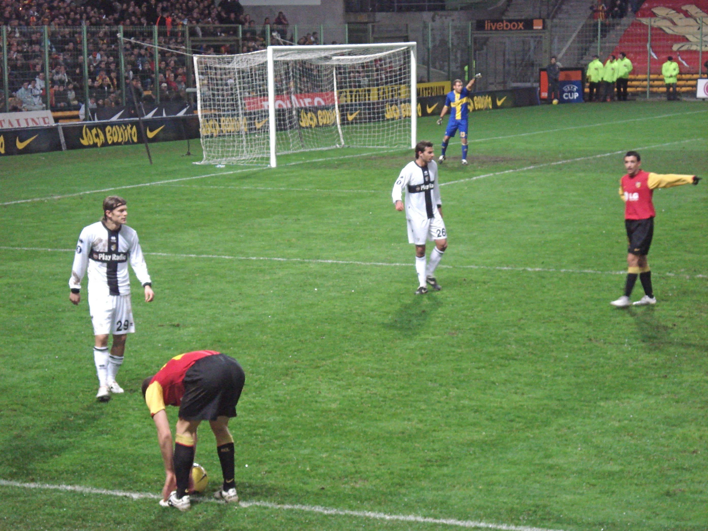 Zlatko Dedić (N°29), Damiano Ferronetti (N°26), Alfonso De Lucia (GK N°23) Parma AC vs Eric Carrière (RC Lens)